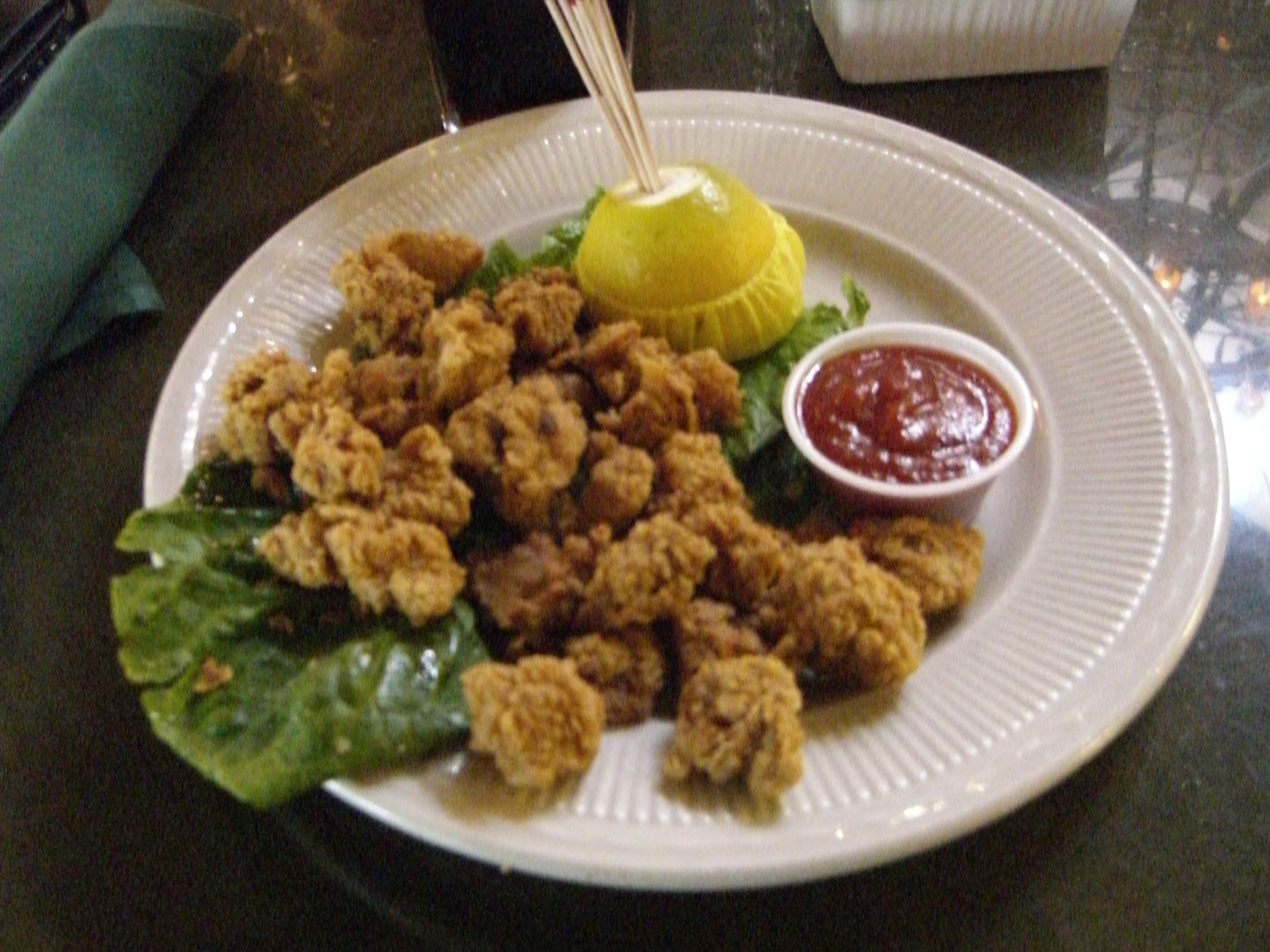 Deep fried bovine testicles